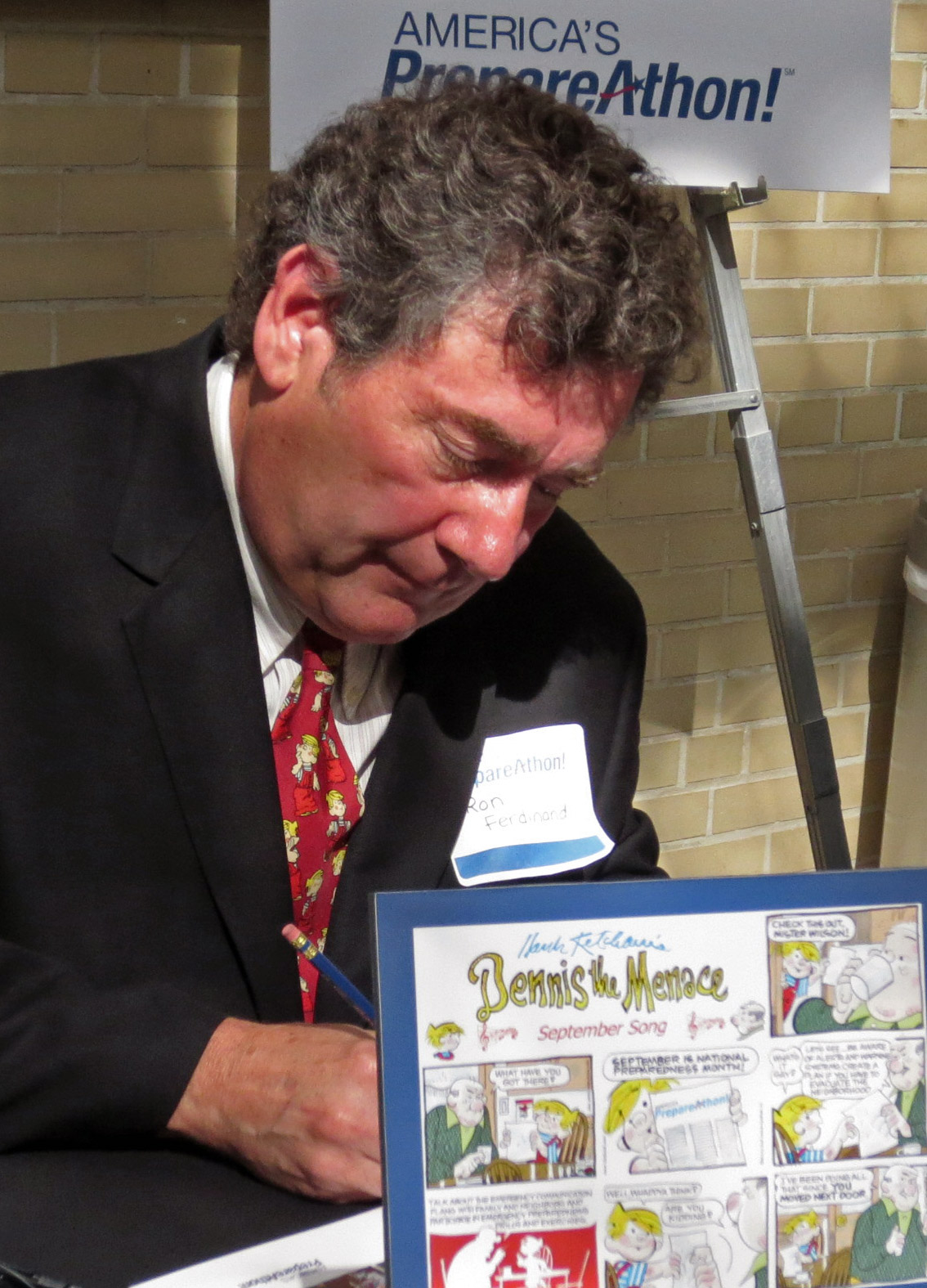 Dennis the Menace cartoonist Ron Ferdinand autographs a comic supporting the 2013 Prepareathon.